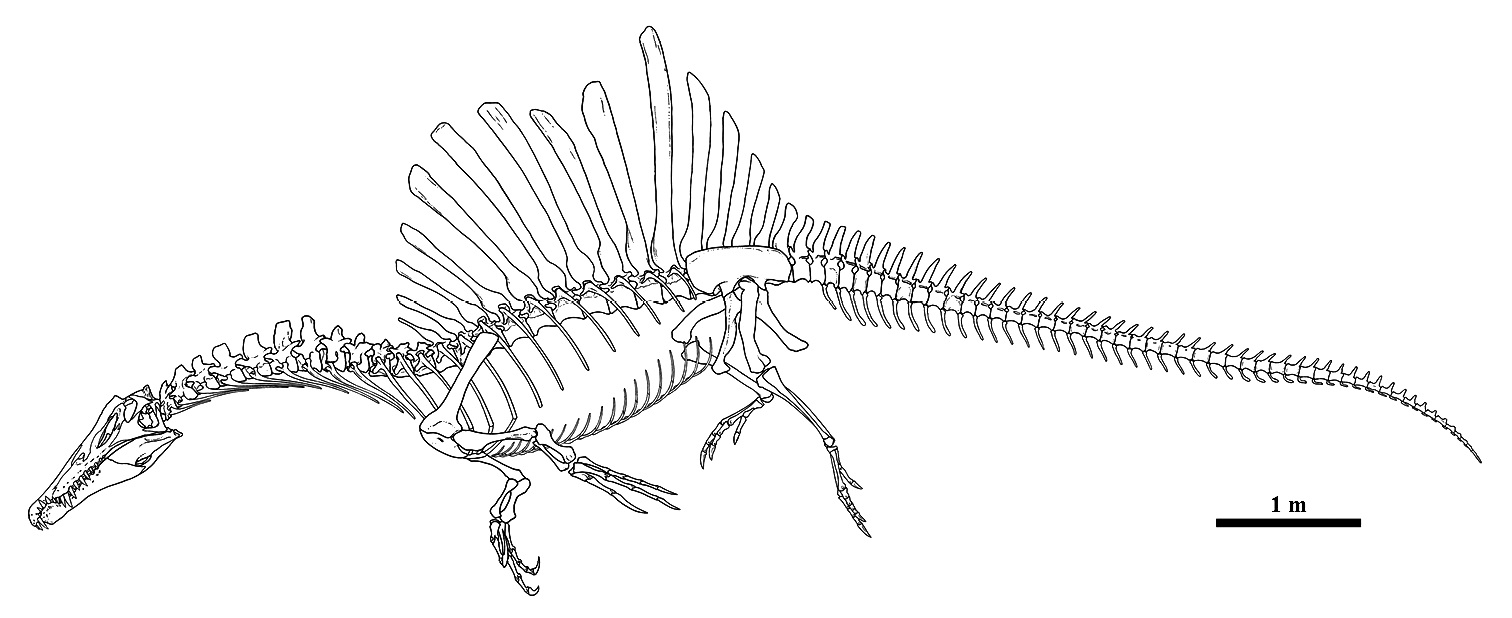 Skull and skeleton of Spinosaurus aegyptiacus. A Skull reconstruction in left lateral view (after Dal Sasso et al. 2005) B Skull reconstruction with adult rostrum (MSNM V4047) and dentary (NHMUK VP R 16421) superimposed C Skeletal reconstruction (swimming pose, after Ibrahim et al. 2014b). Scale bars equal 40 cm in A, B and 1 m in C. Abbreviations: a angular d dentary, f frontal, j jugal m maxilla n nasal pm premaxilla po postorbital qj quadratojugal sa, surangular.